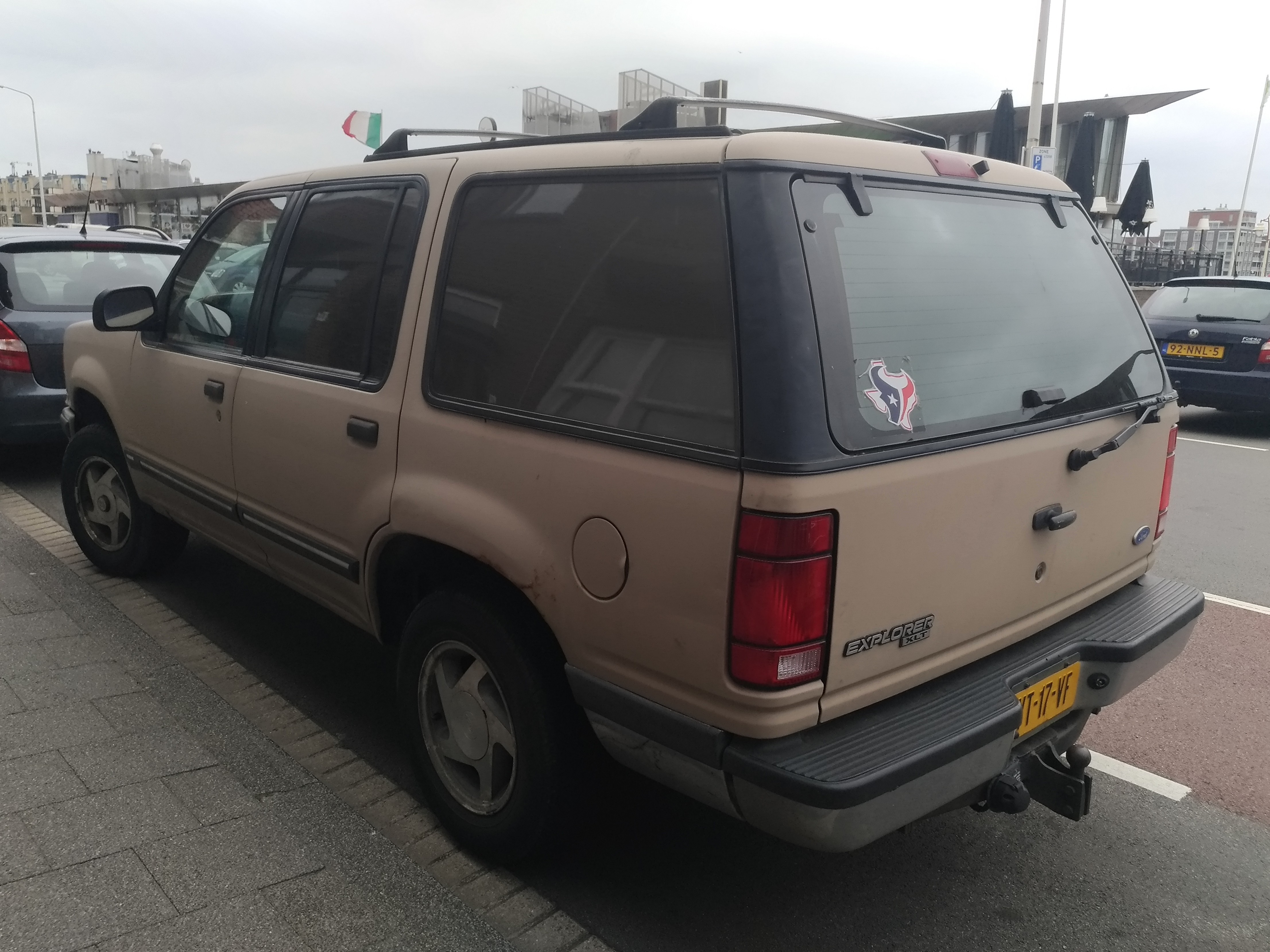 1993 Ford Explorer XLT (V6 4.0 158 hp) at The Hague